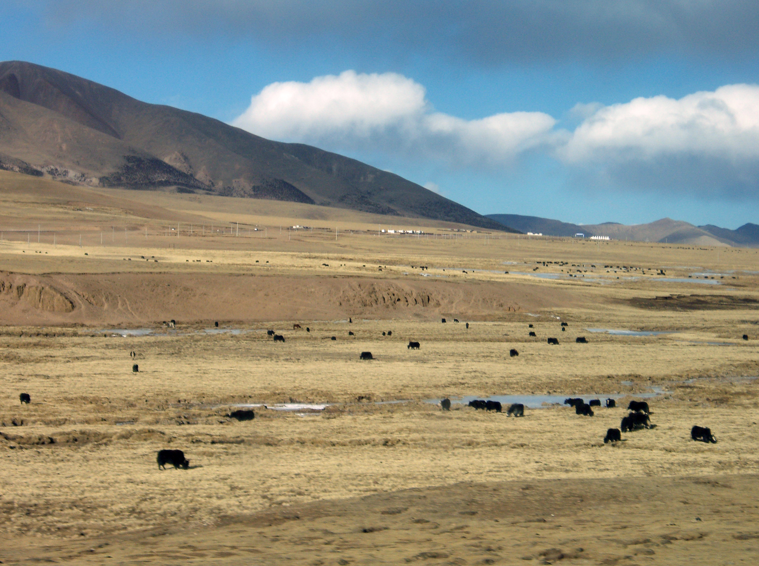 Yak herd grazing in Tibet.